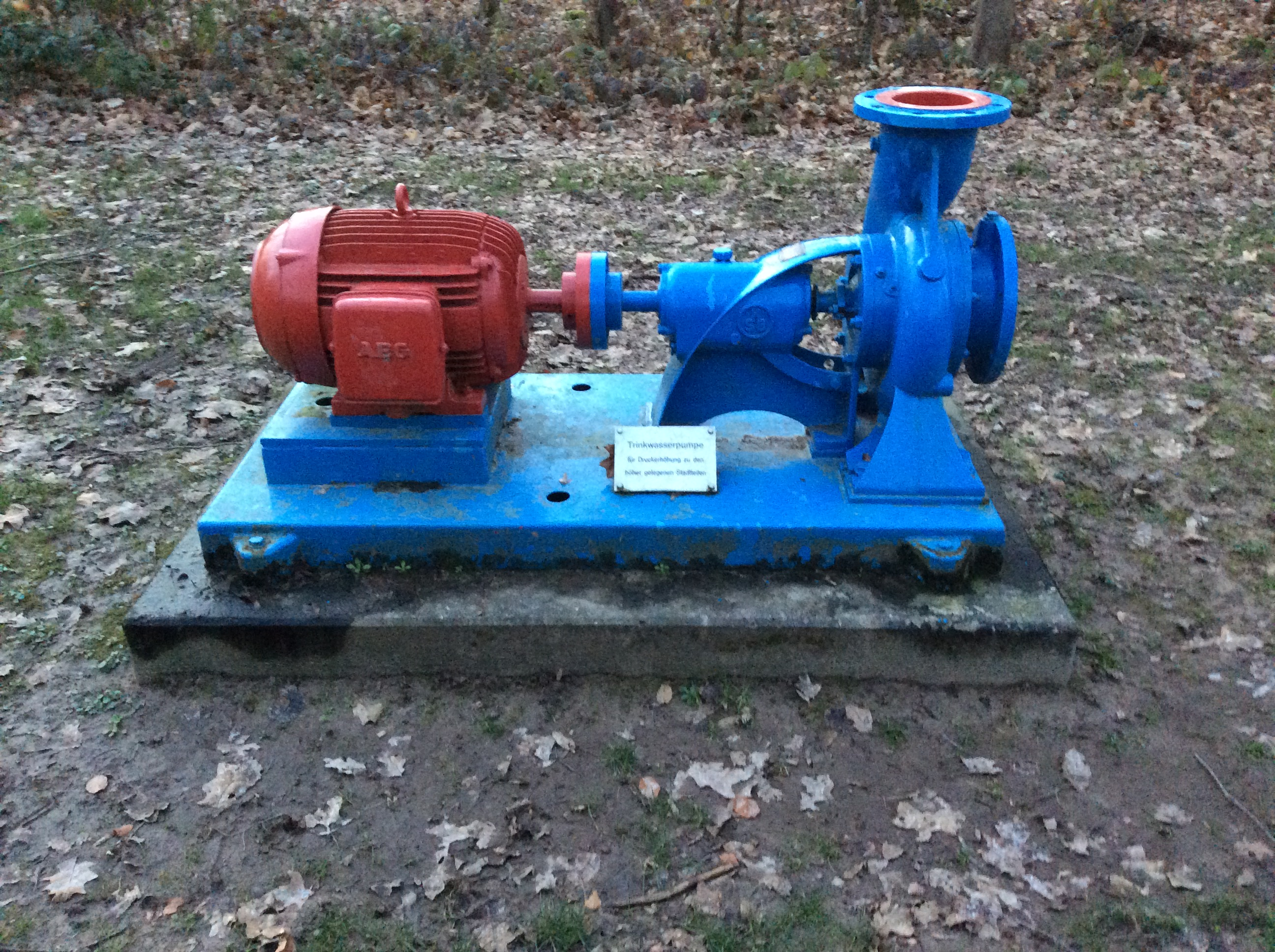 water pump for increasing the pressure in the higher parts of the city